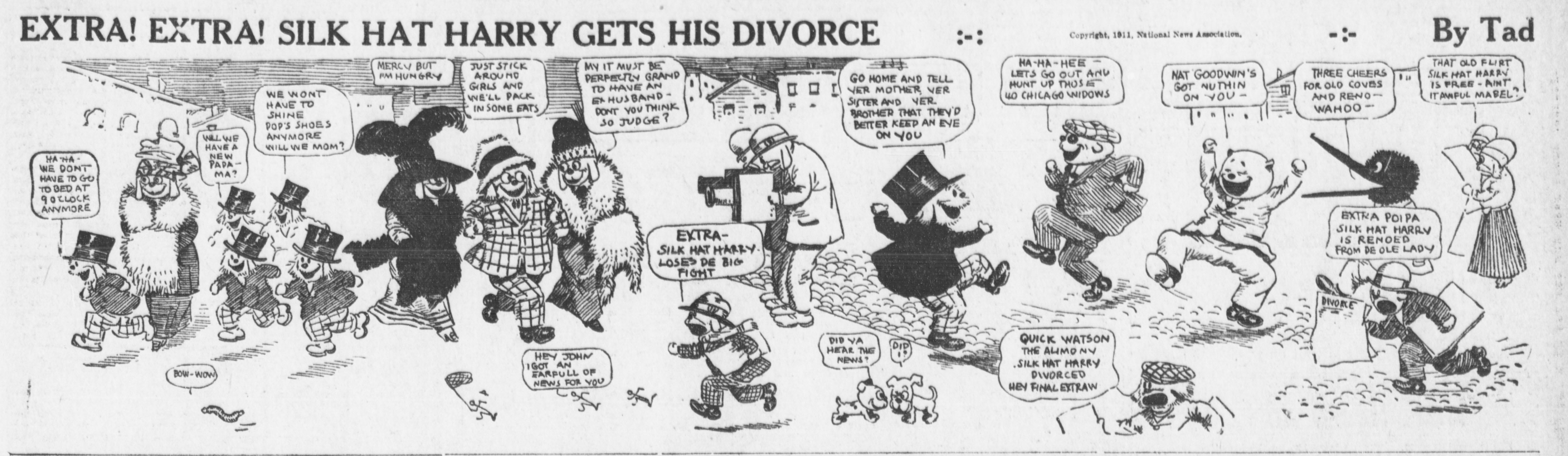 in this installment of Tad Dorgan's "Judge Rummy", Silk Hat Harry celebrates his divorce (or "Reno-ing"). To the far left, his ex-wife and many children likewise celebrate. In the center, Judge Rummy philanders. The text in this image should be transcribed and included in the description on this page. See also Transcription . The Google OCR tool may be of use in transcribing images.